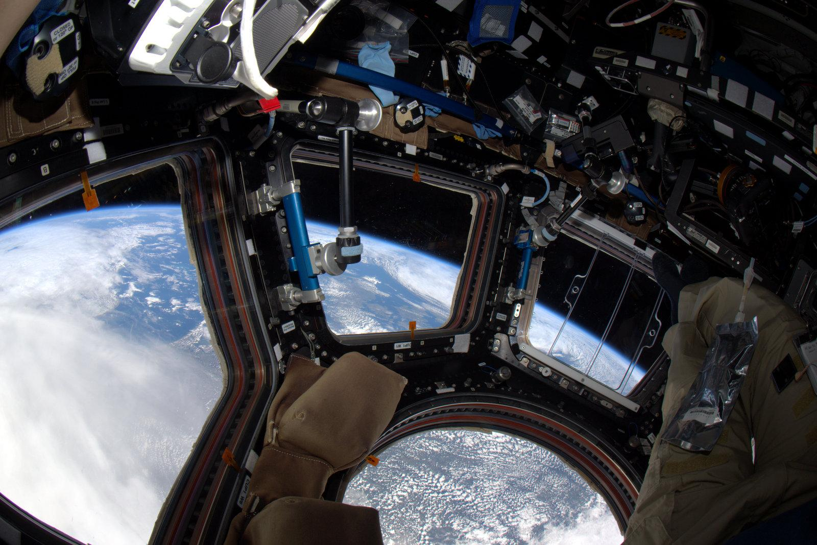 Saturday Morning coffee with my old friend Planet Earth. Tweet from Scott Kelly with Earth view through the station's cupola.